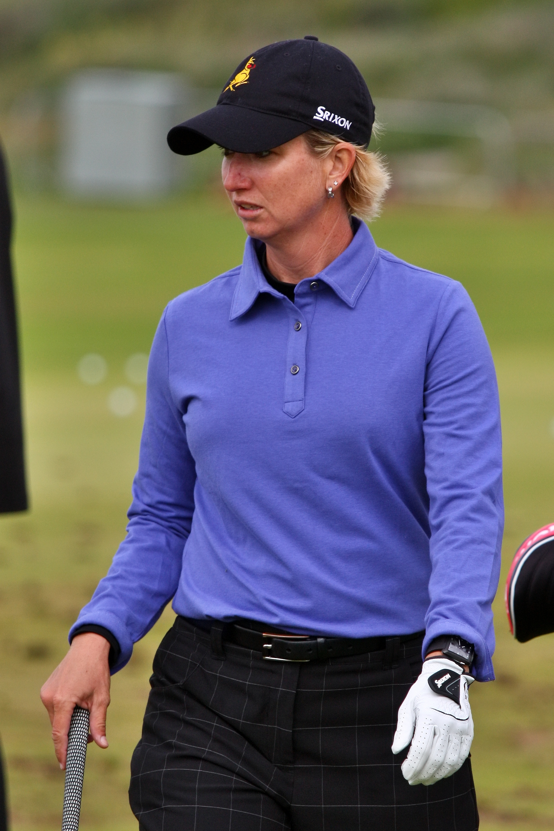 SOUTHPORT, UNITED KINGDOM – AUGUST 01: Karrie Webb of Australia on the on the practice ground before final round of the 2010 Ricoh Women's British Open held at Royal Birkdale on August 1, 2010 in Southport, England. (Photo by Wojciech Migda)